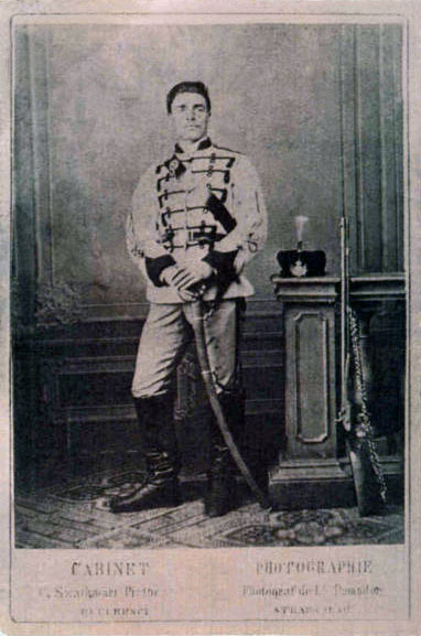 Vasil Levski (1837–73) in a Bulgarian Legion uniform